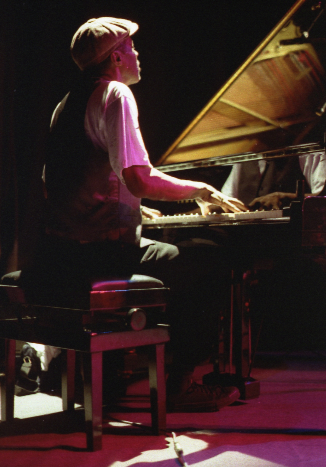 Charles Gayle on piano, 1994-11-14, Paris, Passage du Nord-Ouest (13, rue du feaubourg Montmartre)